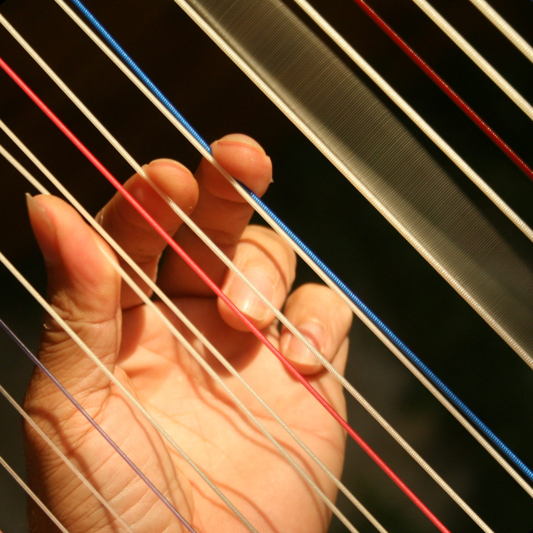 Hands of a harpist playing